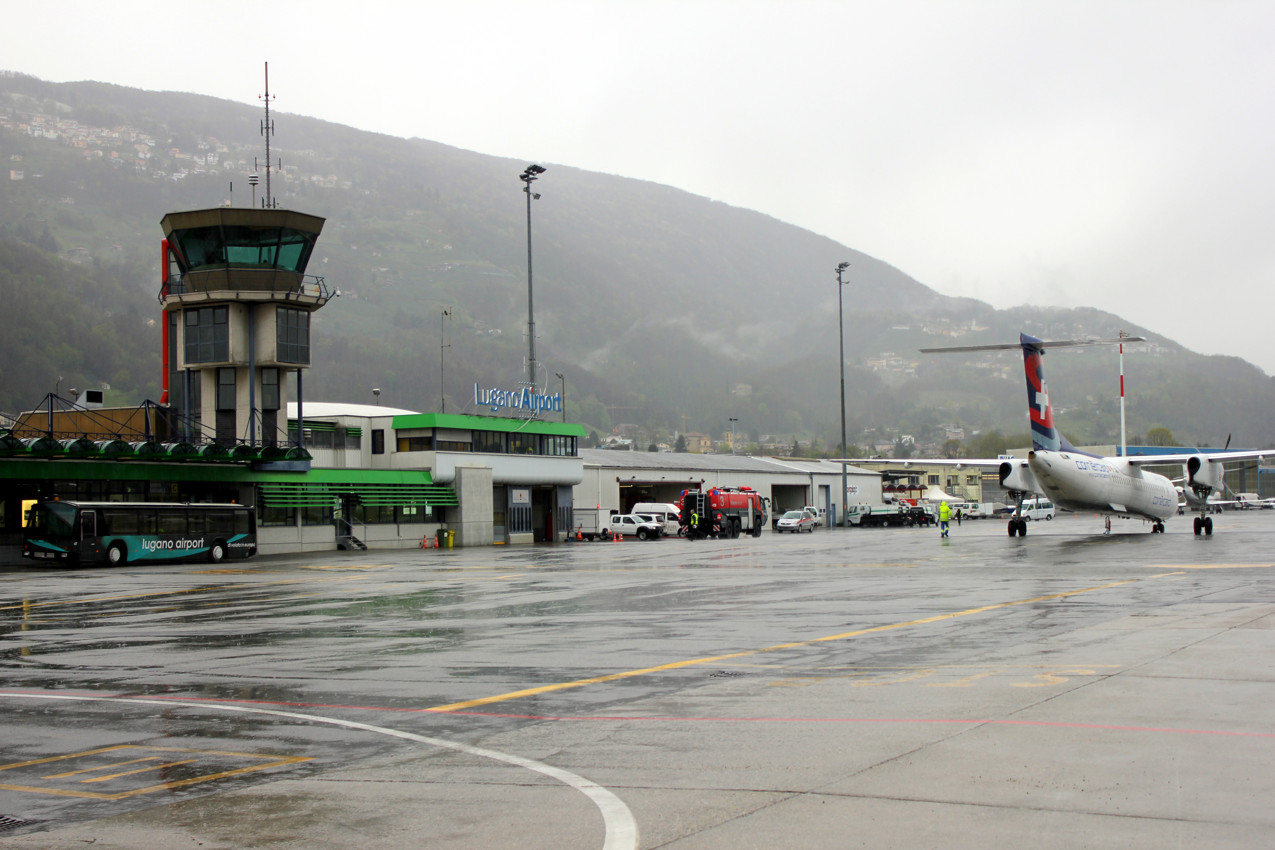 Apron and tower of Lugano airport (ICAO-Code: LSZA)